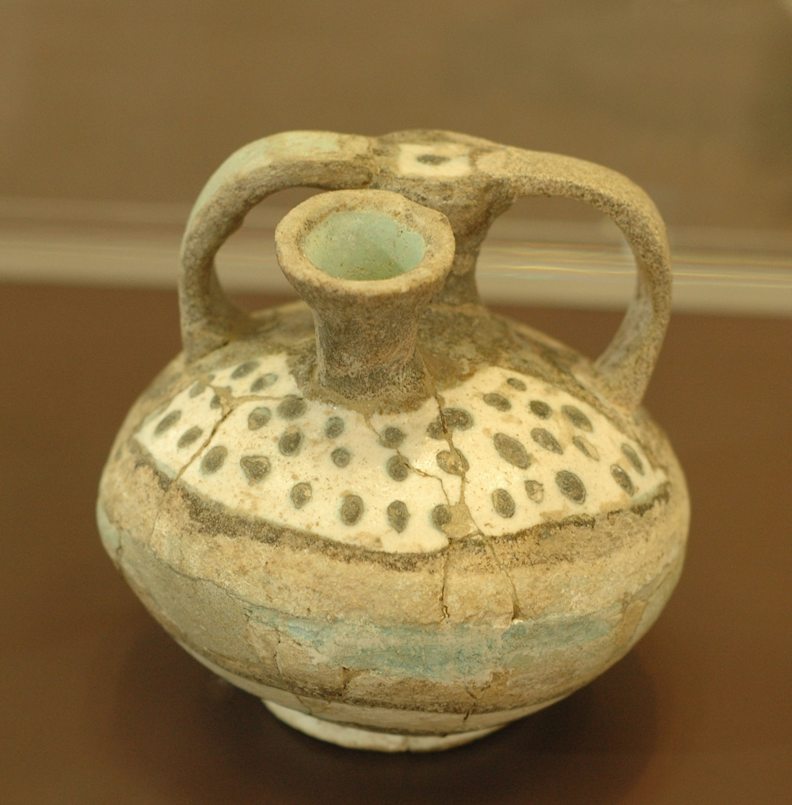 Stirrup vase, Ugaritic imitation of Mycenaen ceramics. Found in the cemetary of Minet el Beida (ancient Ugarit), tomb 4.